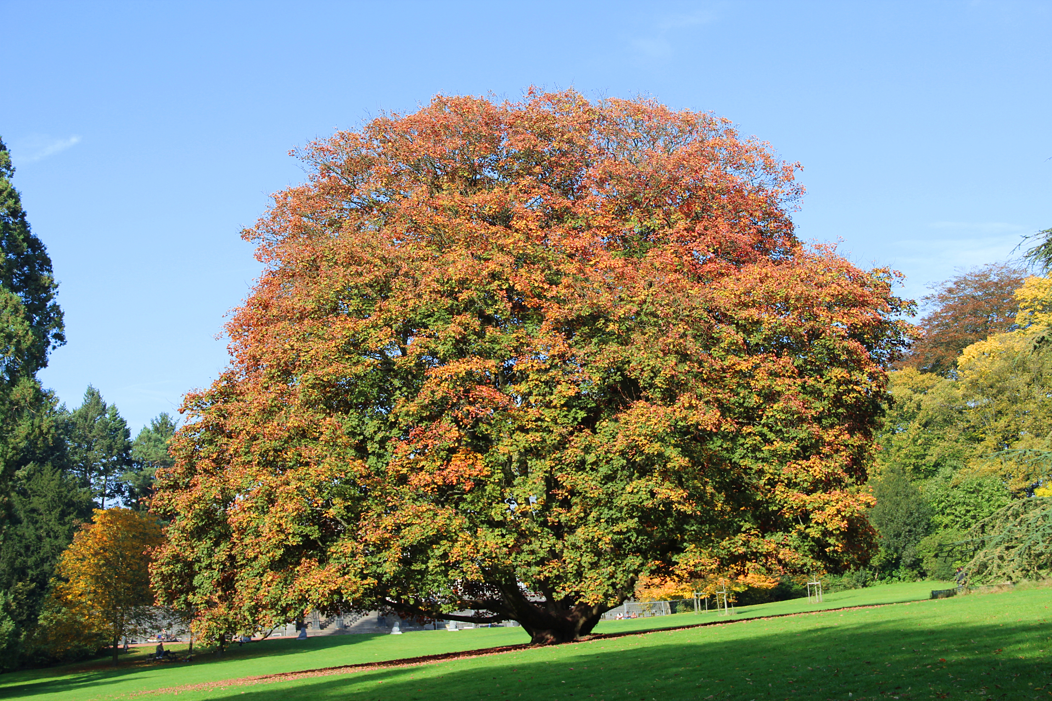 Red Sycamore Maple